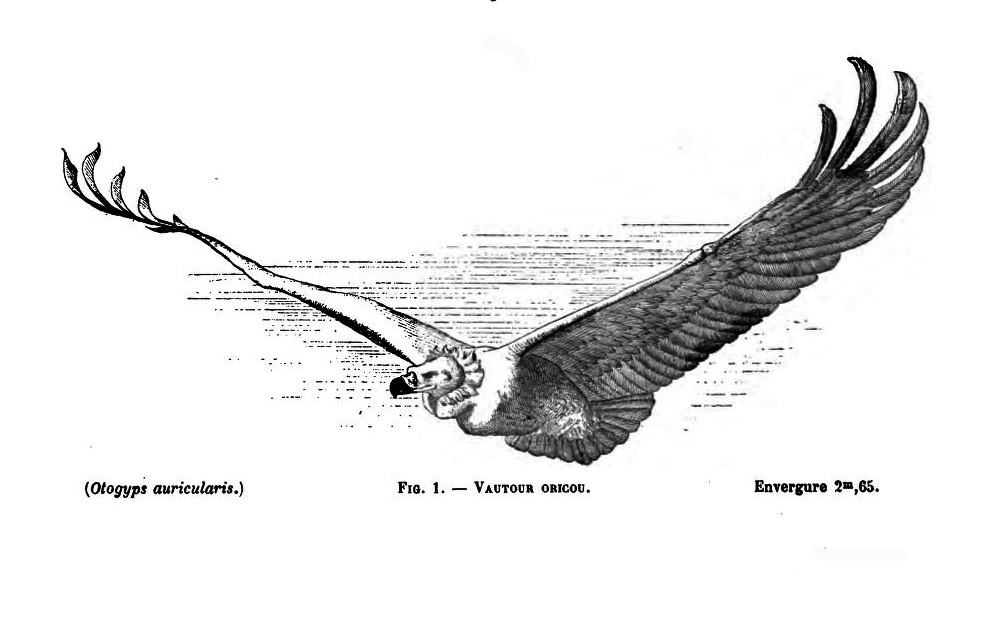 Louis Pierre Mouillard illustration of a vulture (=Torgos tracheliotus)